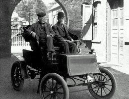 Thomas Edison and Thomas Edison Jr., in an early electric automobile, 1903 Baker Electric Car. The Baker Motor Vehicle Company, based in Cleveland Ohio, produced electric cars in 1900-1916.